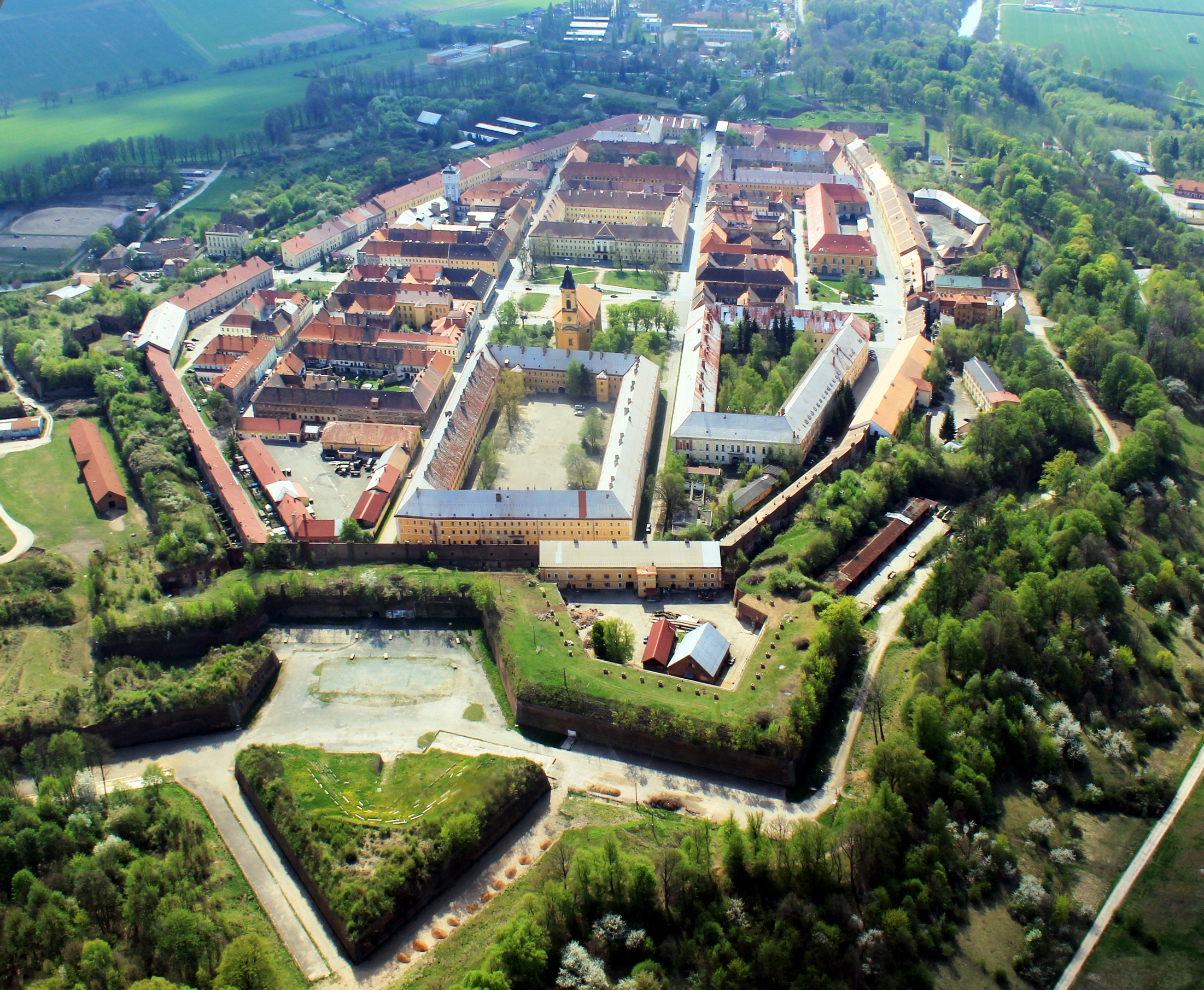 Fortress Josefov near of Jaroměř from air, eastern Bohemia, Czech Republic